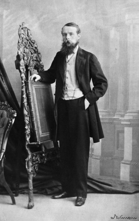 Photograph : George Stephen, Montreal, QC, 1865, William Notman (1826-1891)